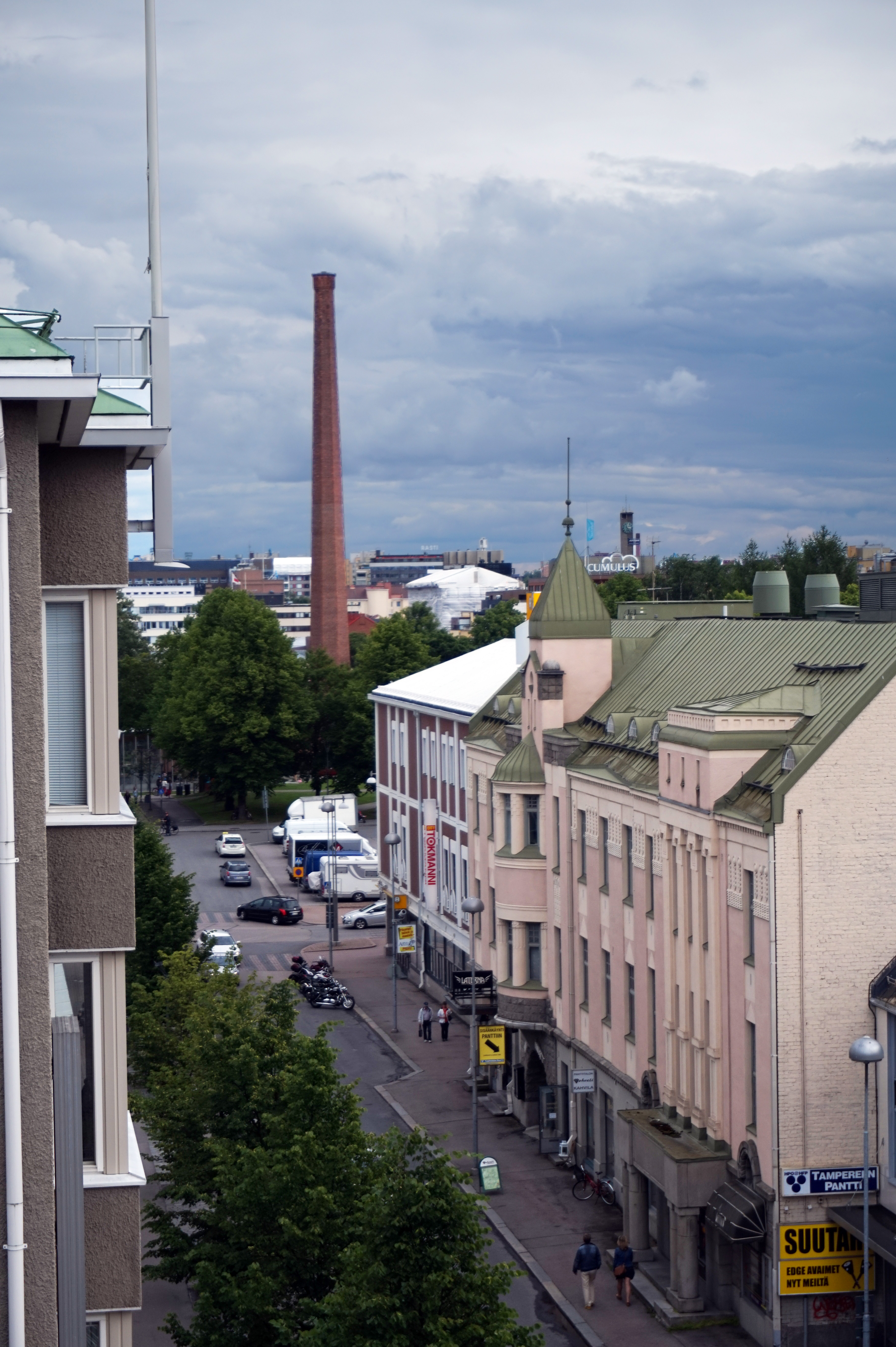 The street Puutarhakatu in Tampere.This photograph was taken with a Sony ILCE-5000